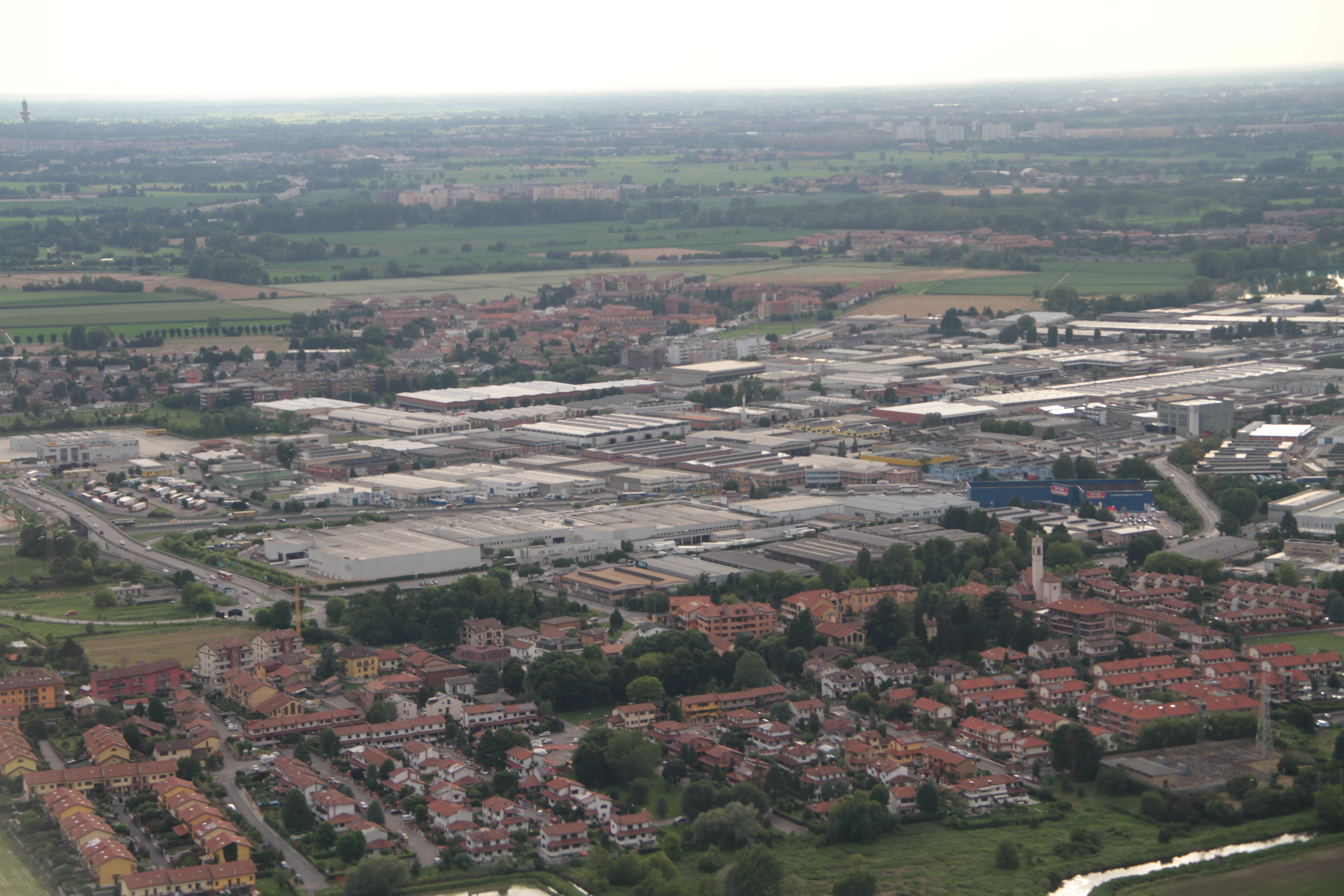 Wikimania 2016: View out of the plane on Milan.